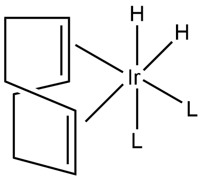 cis-[IrH2L2]PF6